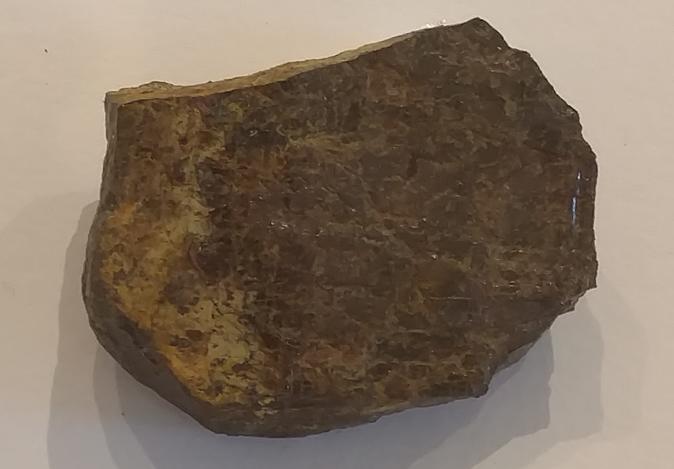 Sample of the mineral Thoreaulite, held in the Harvard Museum of Natural History